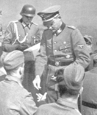 Erwin Rösener and wounded members of Slovene Home Guard